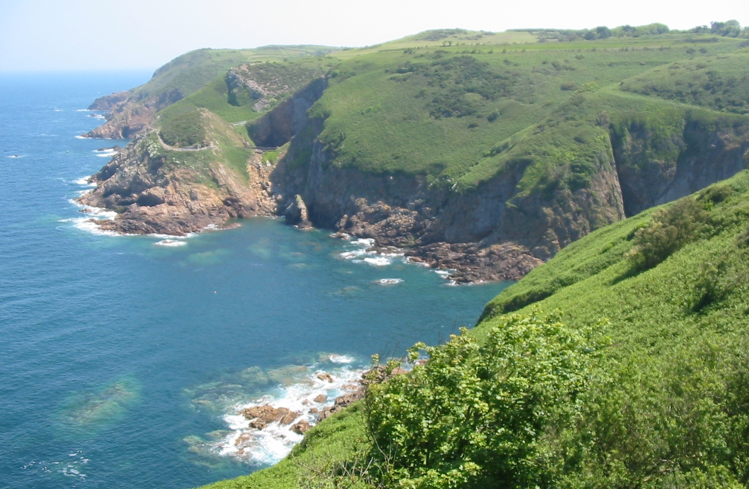 Sights of the Northern Parishes of Jersey Nrf: Eune touônnée au mais d'Mai siez les Nordgiens en Jèrri